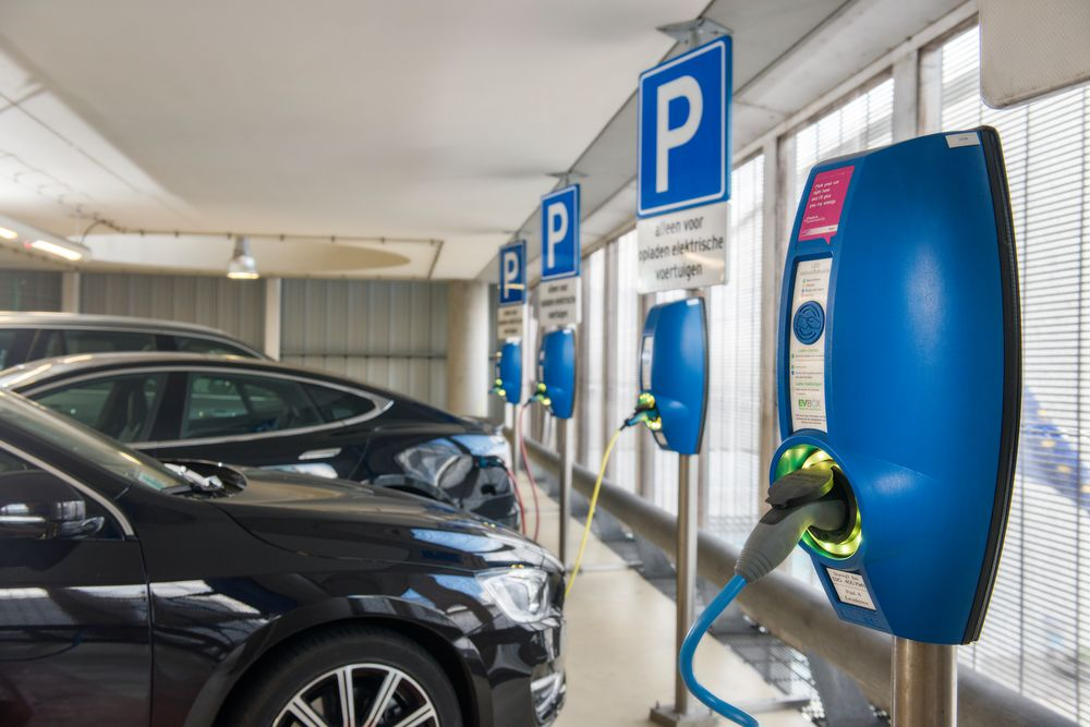 EV-Box BusinessLine Charging Station in Amsterdam Schipol Airport